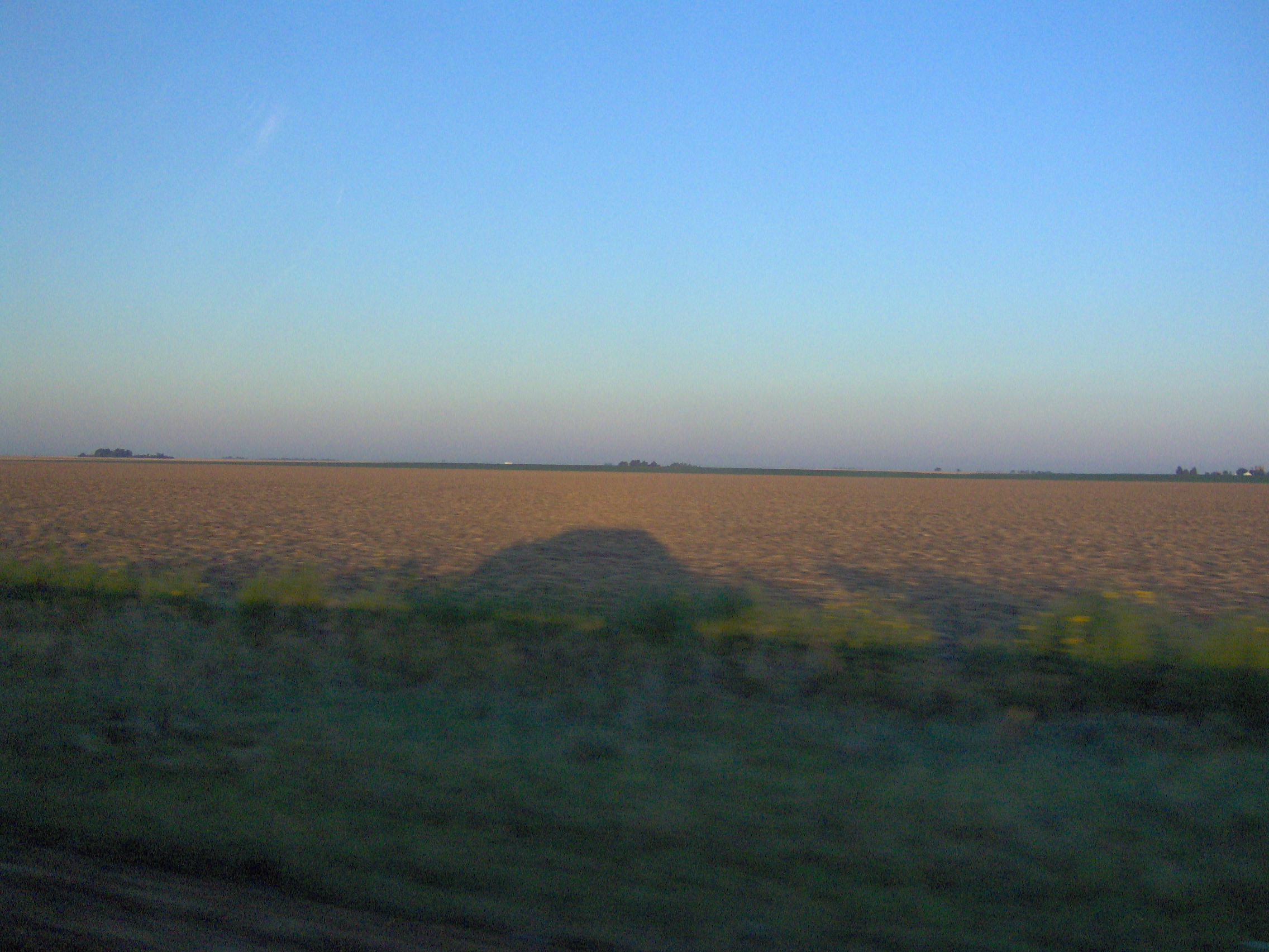 View of flat terrain in Clark County, Kansas. Picture taken by Nyttend on 22 July 2006.